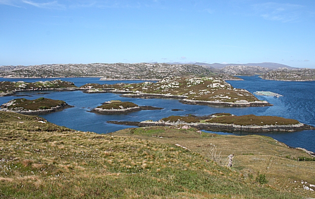 Loch Laxford Islands from Cnoc Druim na Coille The largest island is Eilean a'Mhadaidh 'Island of the Fox' and closer to the shore are Eilean Dubh an Teoir to the left and Eilean na Carraig 'Island of the Headland', the elongated one on the right.